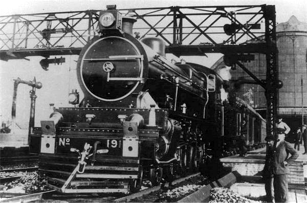 The famous #191 locomotive by Scotland North British Locomotive Company Ltd., stopped at Retiro railway station.